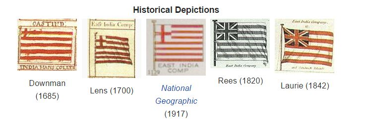 The flags of East india Trading Company